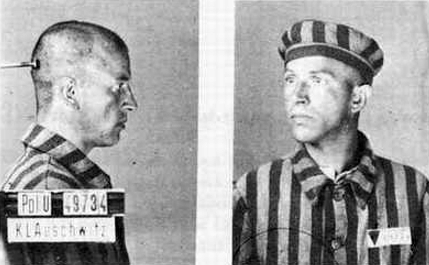 Petro Mirchuk Ukr. Петро́ Мірчу́к (1913-1999) – Ukrainian historian. Here in Nazi-Germany Concentration Camp KL Auschwitz 1942